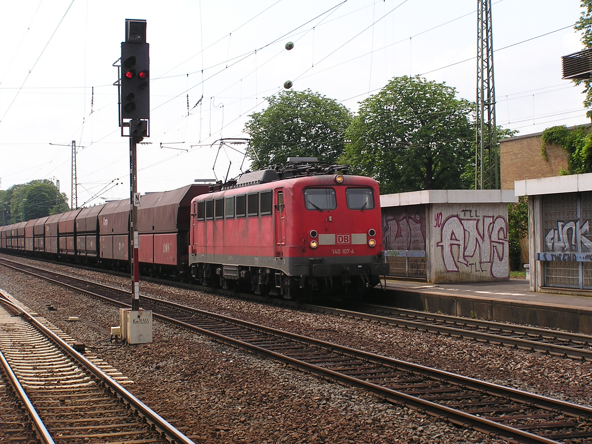 140 107-4 with freight train on the railway Friedberg-Hanau in Nidderau